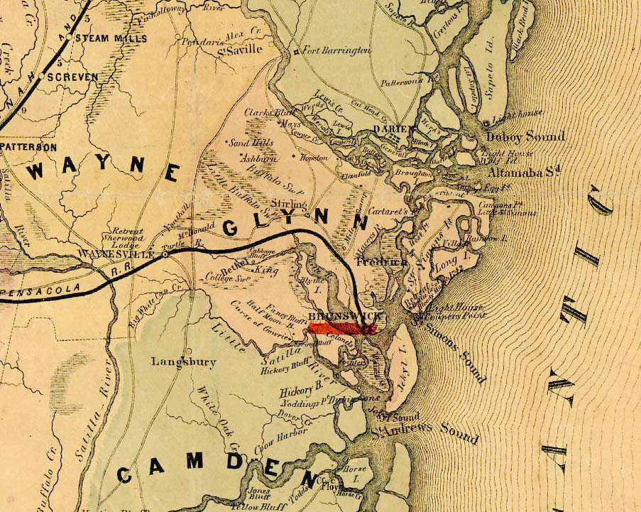 This is a map of Glynn County and the surrounding areas from 1864. Source: [1]